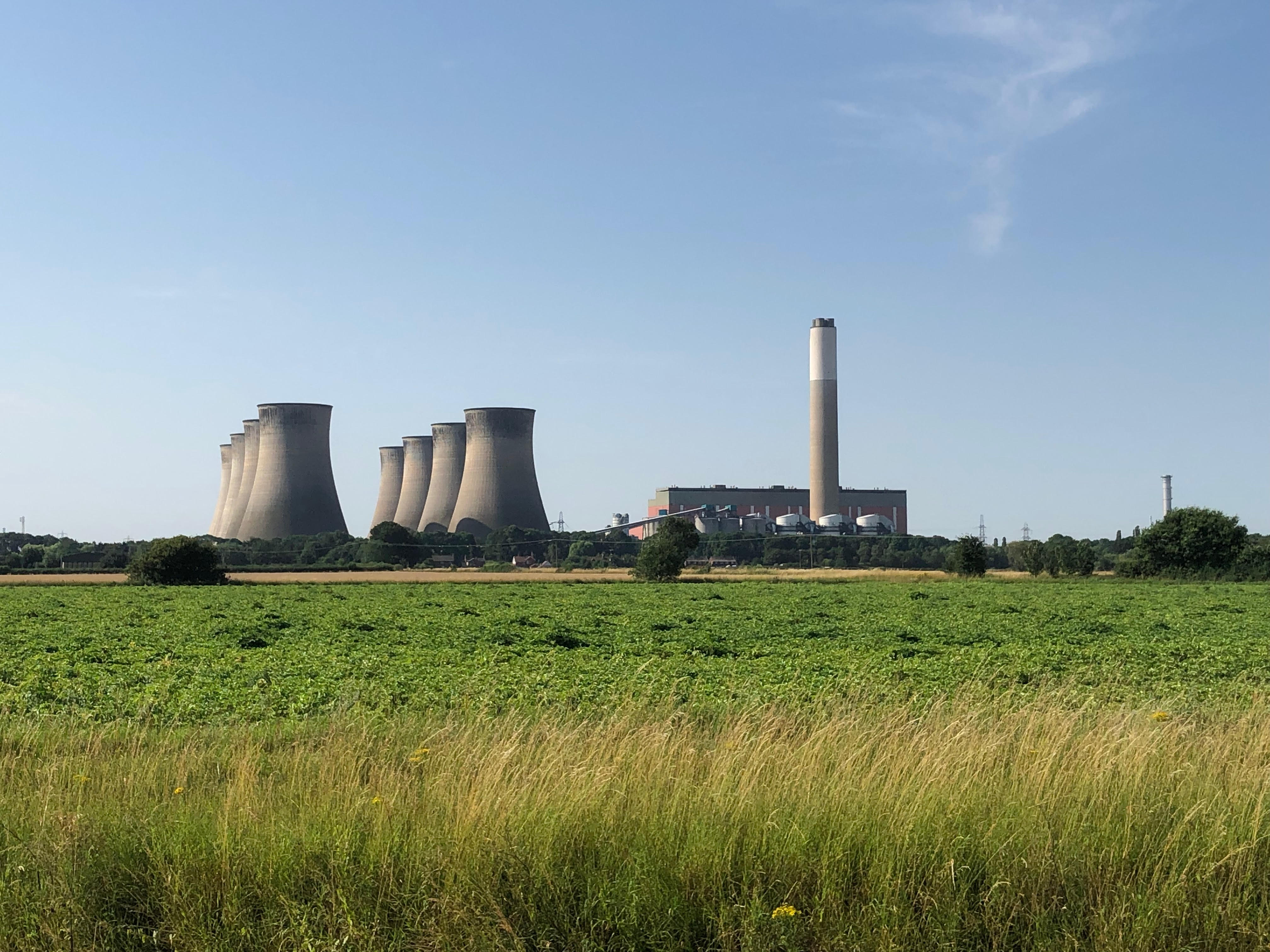 Cottam Power Station, viewed from the north in July 2019 - months prior to official closure.